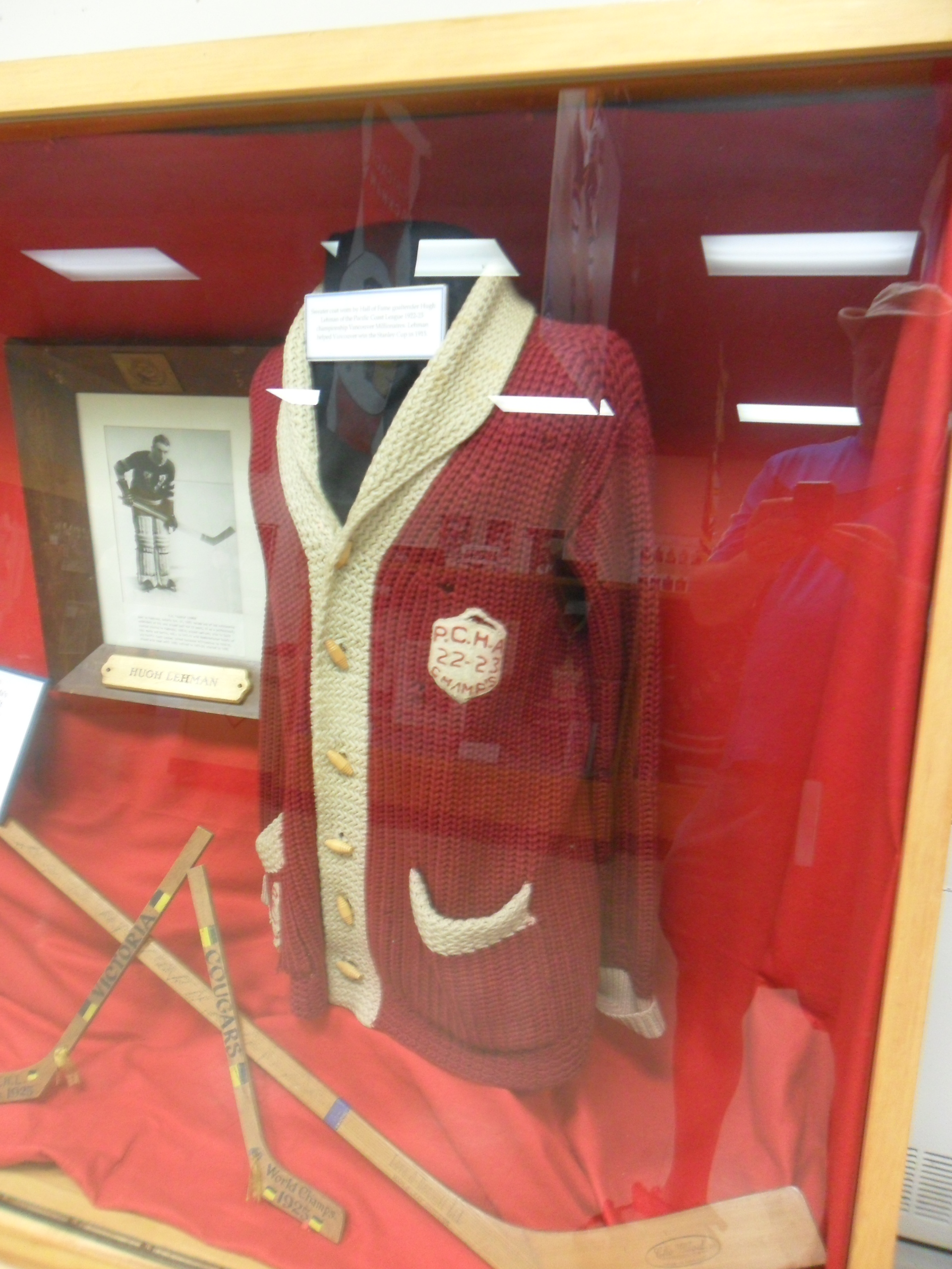 Cardigan-style jersey worn by Hugh Lehman for 1923-24 with champions badge